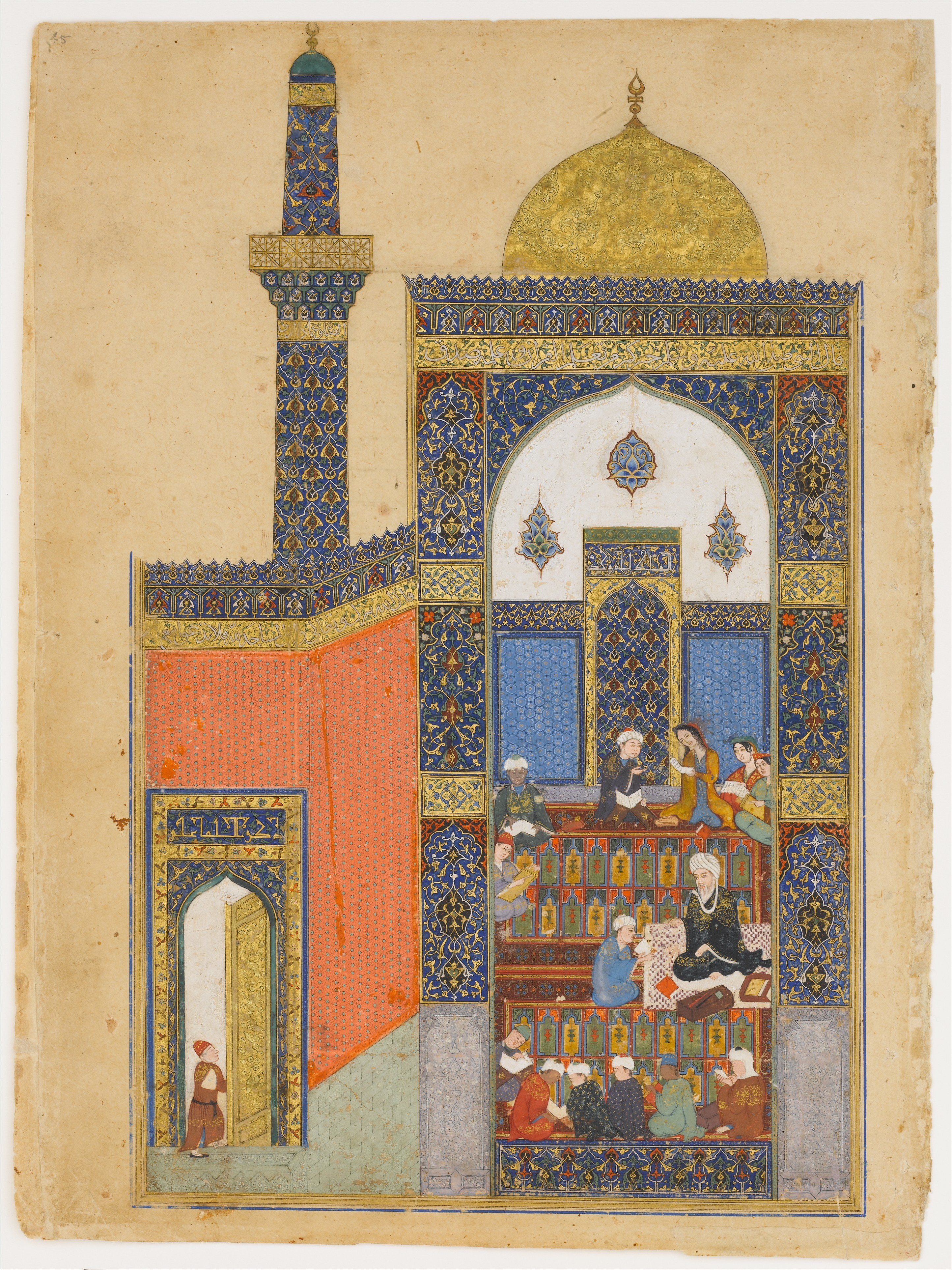 Laila and Majnun at School: Page from a manuscript of the Laila and Majnun of Nizami, dated 1432; Timurid Afghanistan (Herat) Ink, colors, and gold on paper; H. 12 3/8 in. (31.3 cm), W. 9 in. (22.9 cm) Purchase, Lila Acheson Wallace Gift, 1994 (1994.232)